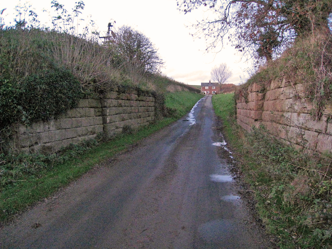 Findsite of the Guisborough Helmet at Barnaby Grange Farm near Guisborough, North Yorkshire. The helmet was discovered in 1864 when a railway bridge (now demolished, but the abutments are still present) was being constructed.